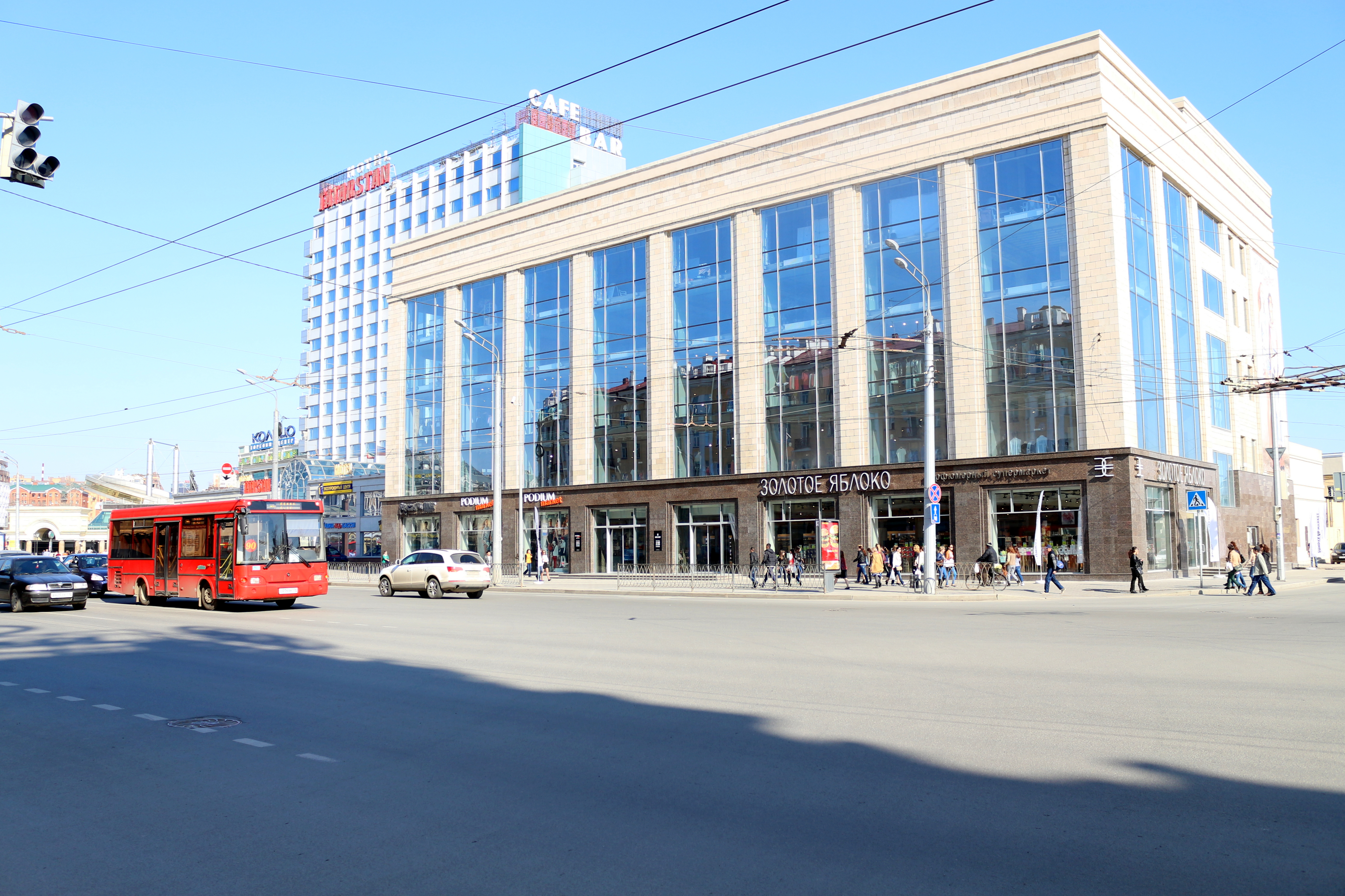 Clild World